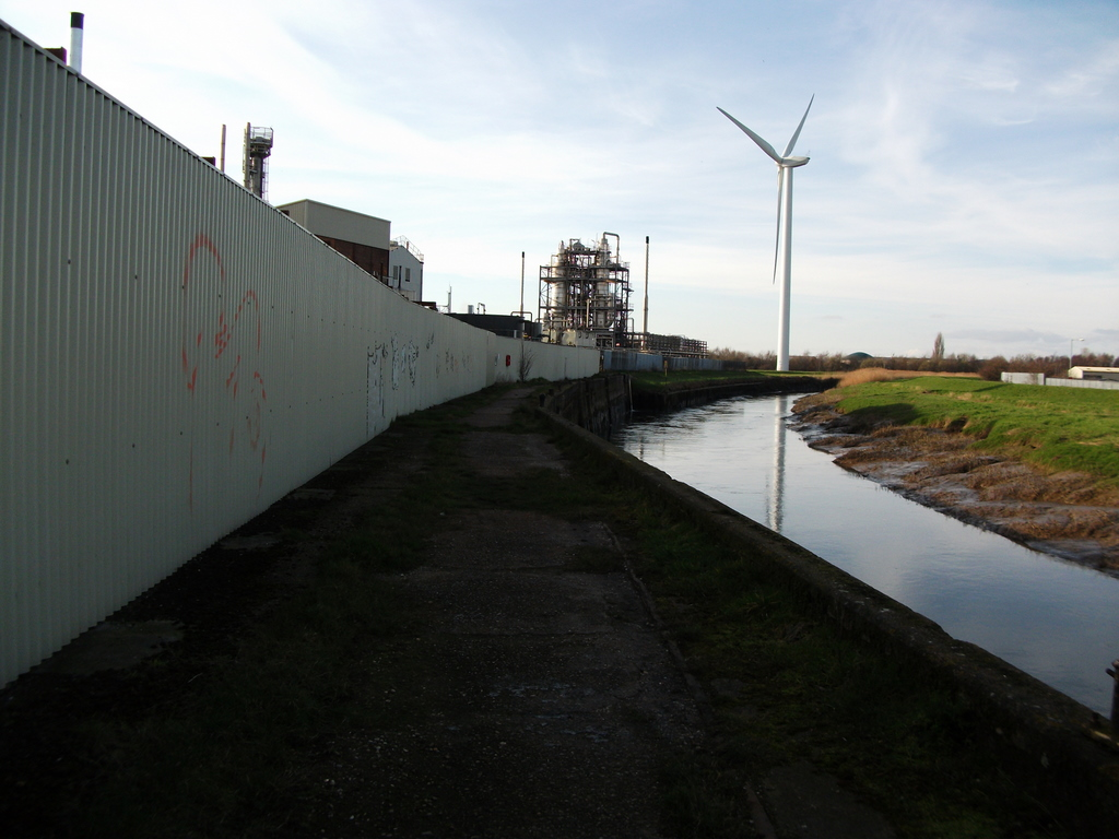 Note: geotagged images have been done manually, generally to ~5m or better accuracy, but human errors may occur. Location refers to camera location, no location of object photographed. Wharf for Croda, Kingston upon Hull. Crane rails are present in the floor of the quayside.